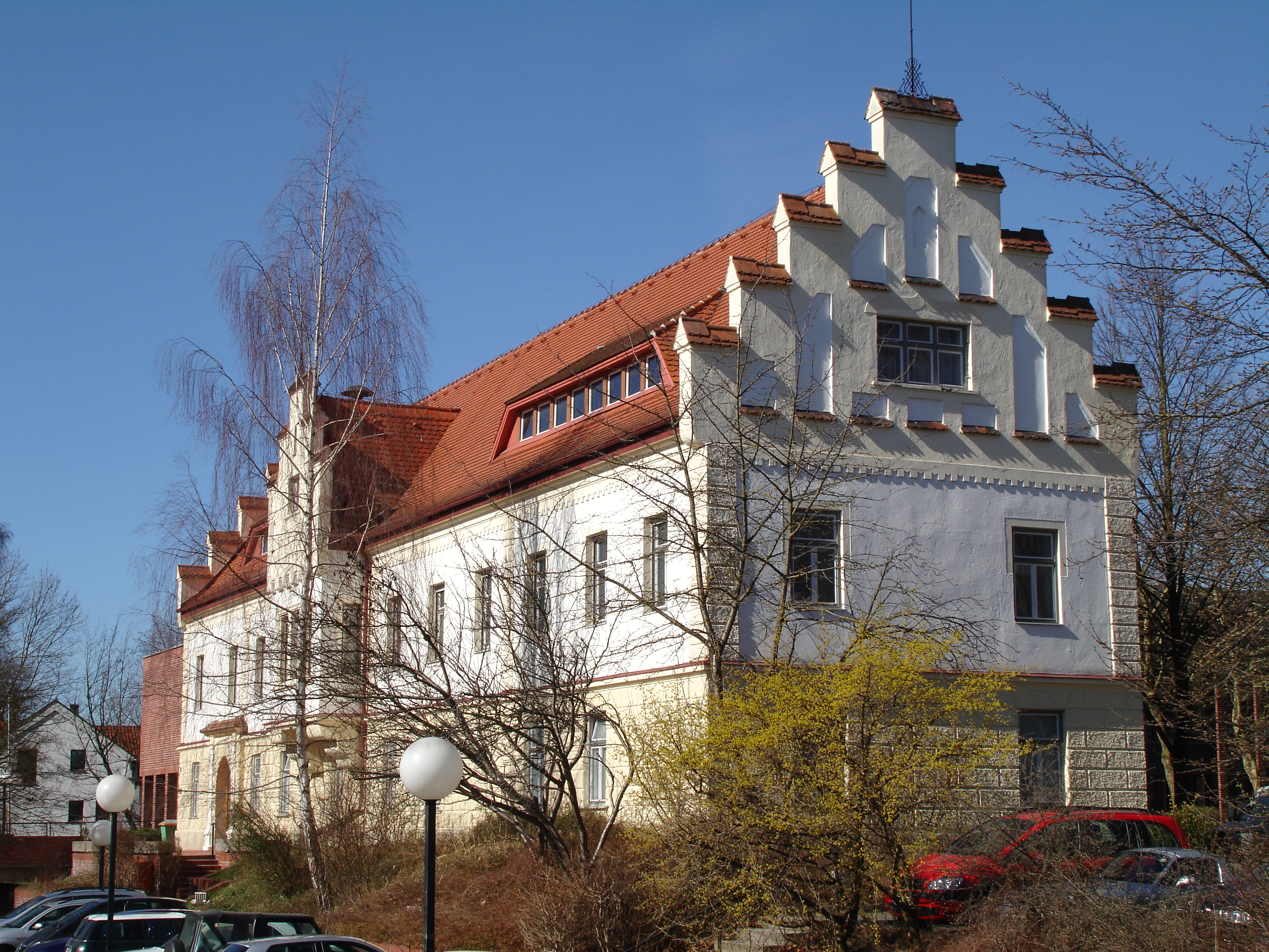 Town hall (part of the former castle) of Markt Schwaben, county Ebersberg, Bavaria, Germany Picture by J. Patrick Fischer